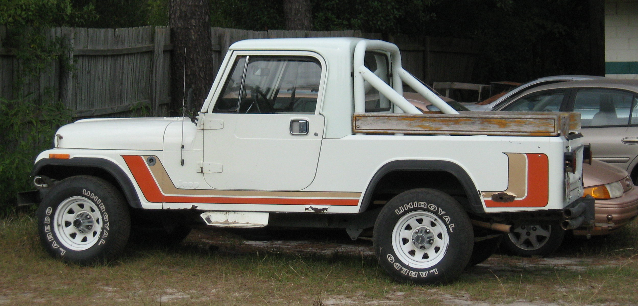 Jeep SCrambler compact 4X4 pickup truck by American Motors Corporation (AMC). Vehicle has the original stripes and wood side rails. Picture taken in South Carolina